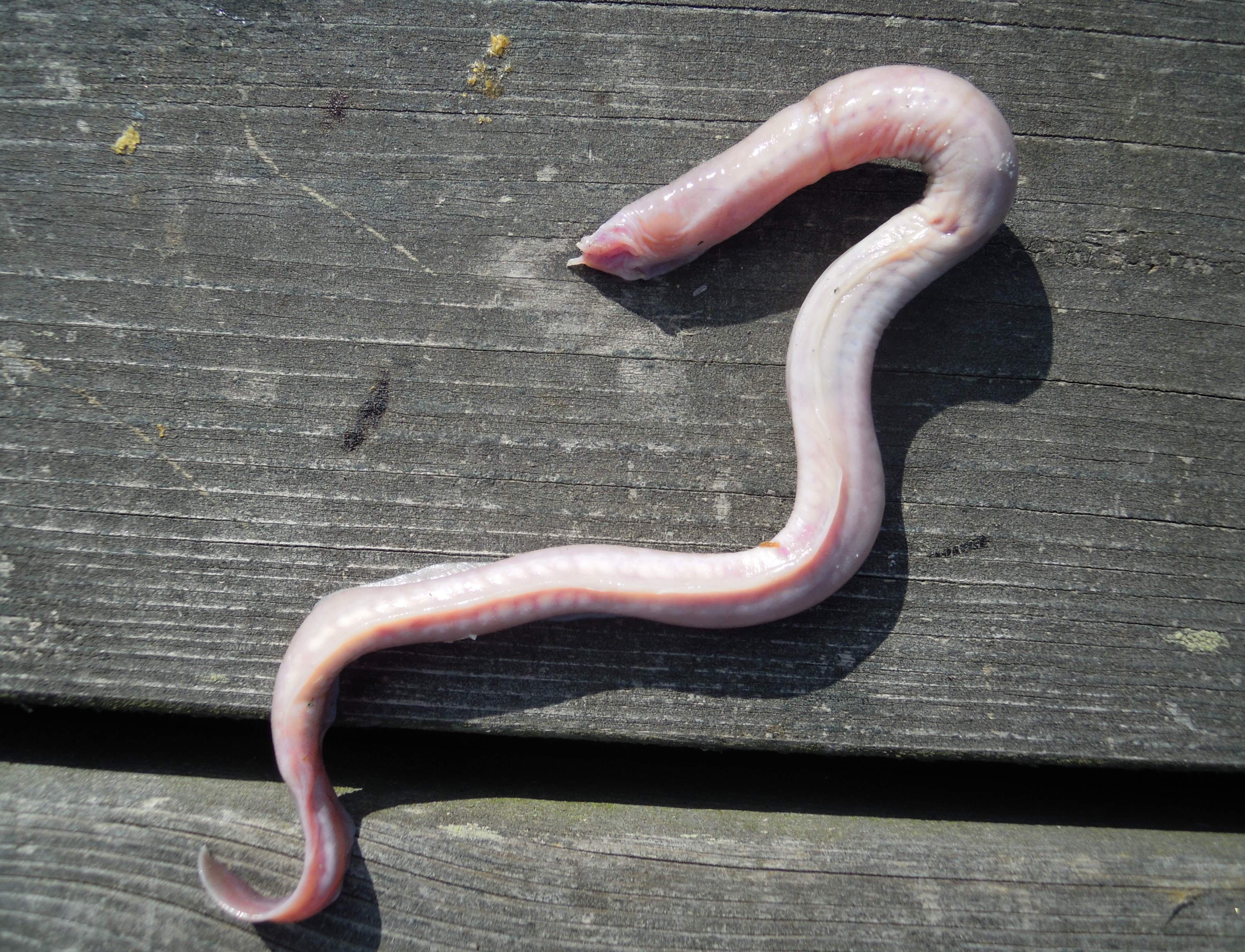 Hagfish - Myxine glutinosa. Stavern, Norway You are free to use this picture (see license), as long as you write: Photo: Arnstein Rønning